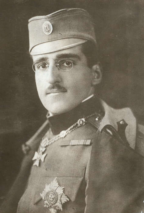 Serbian Prince and later Yugoslavian king Alexander Karađorđević.